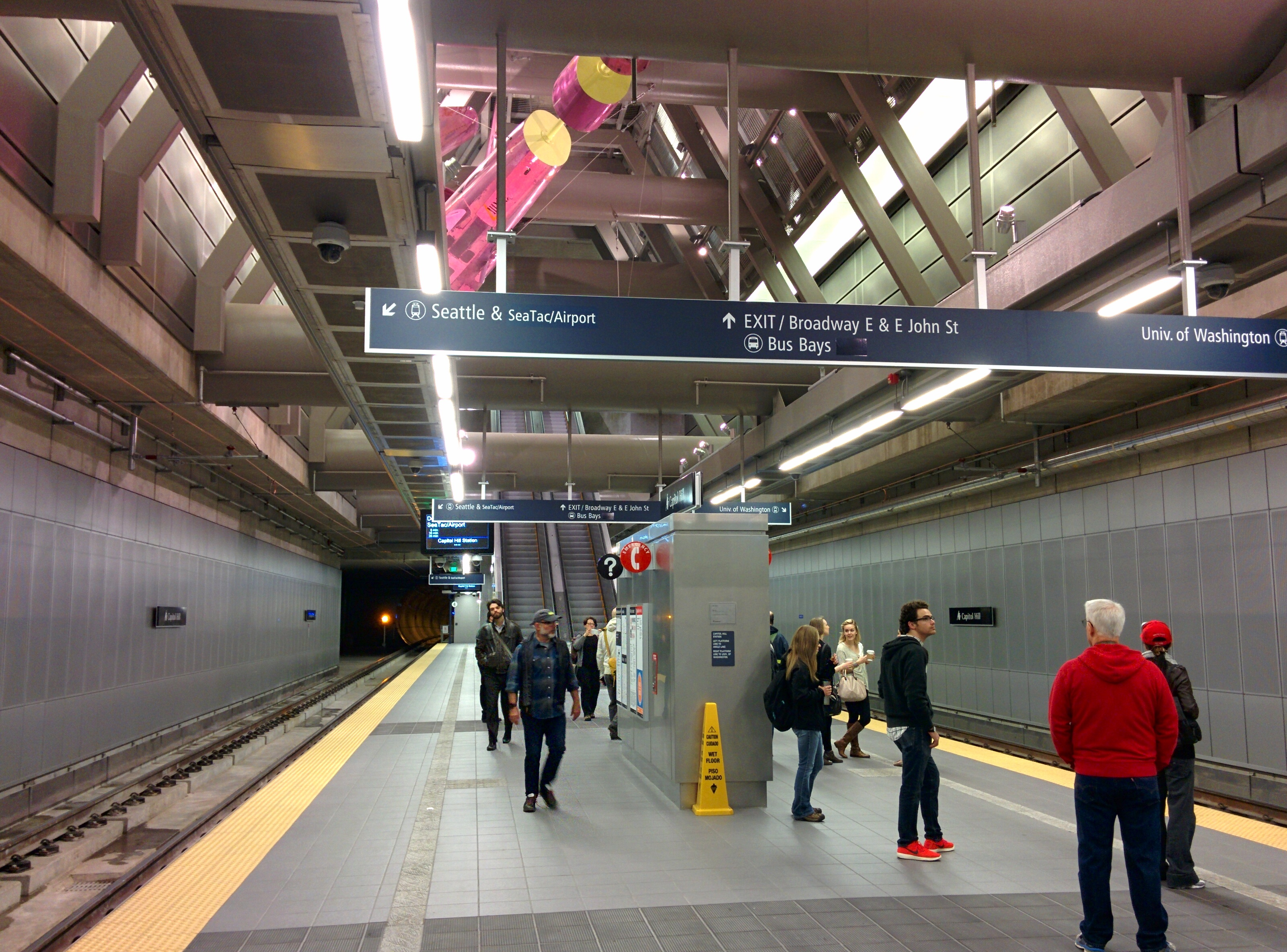 Capitol Hill station in Seattle on the Link Light Rail line. Inside on the platform level.